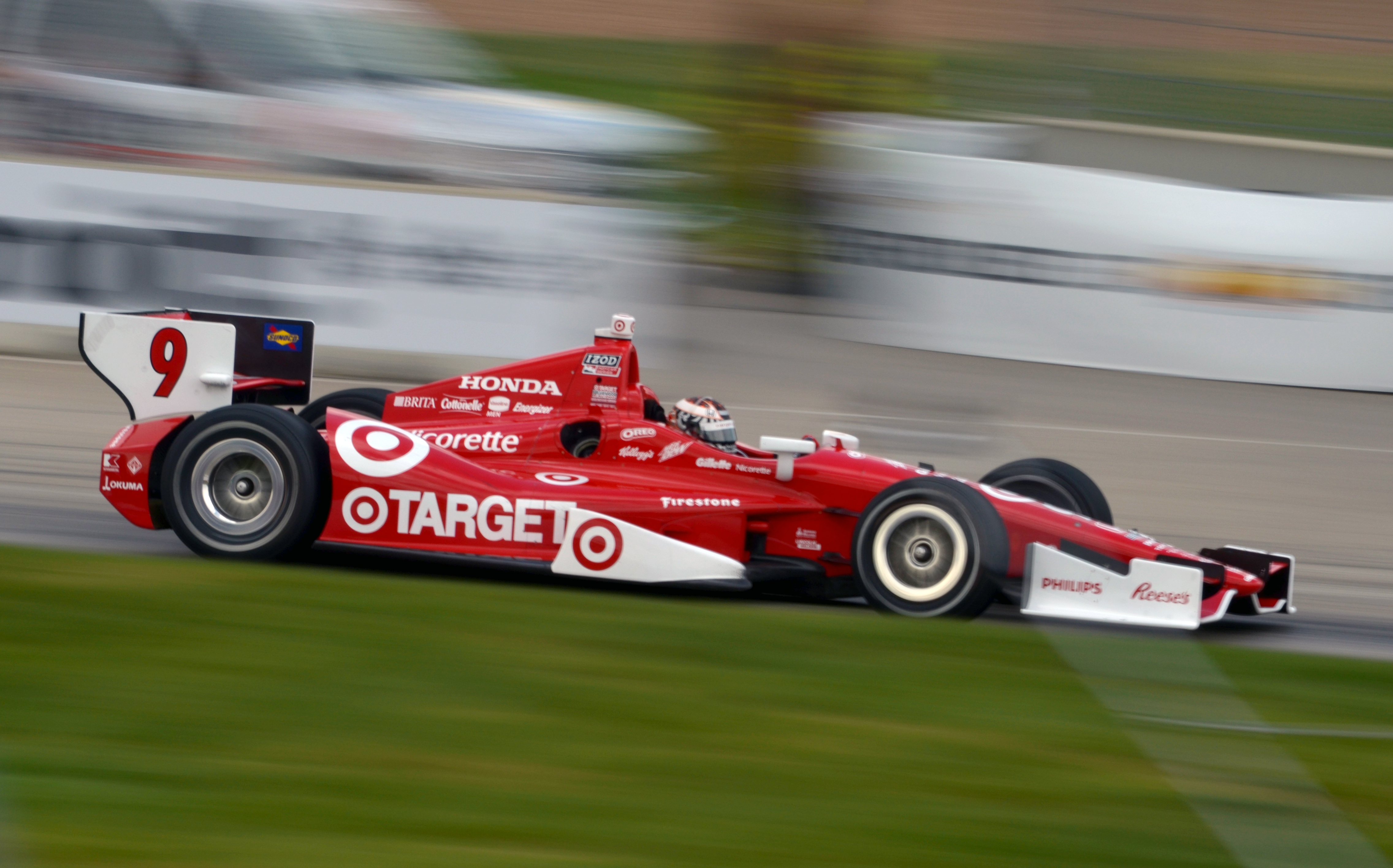 Scott Dixon Chip Ganassi Racing - Honda 2012 Detroit Belle Isle Grand Prix